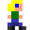 Passage game icon